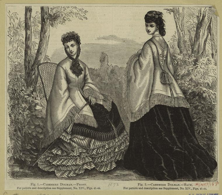 Image Title Cashmere dolman ; front ; Cashmere dolman : back. Creator Noël, Laure, 1827-1878 -- Artist Published Date 1871 Specific Material Type Prints Item Physical Description 1 print : b&w ; 16 x 19 cm. (6 1/4 x 7 1/4 in.) Notes Written on border: "Nov. / 1871." Printed on border: "For pattern and description see supplement, no. XIV., figs. 41-44." "Fig.1." "Fig.2." Original Source From Harper's bazaar. (New York : Harper's Bazaar, 1868-) . Source Mid-Manhattan Picture Collection / Costume -- 1870s -- American Source Description 7 folders (271 pictures) Location Mid-Manhattan Library / Picture Collection Catalog Call Number PC COSTU-187-Am Digital ID 803841 Record ID 696522 Digital Item Published 10-27-2005; updated 3-25-2011